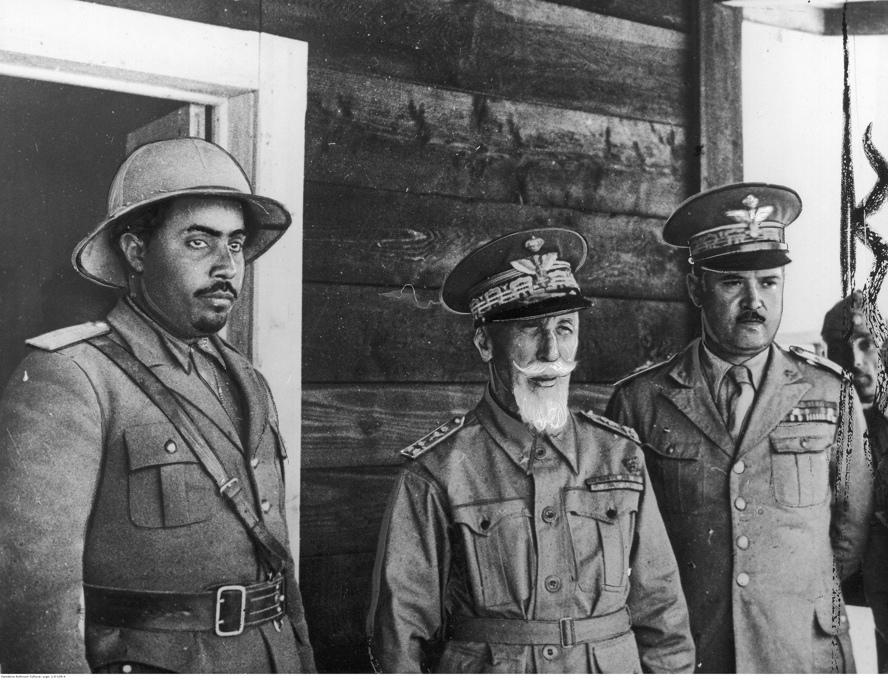 Haile Selassie Gugsa after switching to the Italian side. From left to right: Haile Selassie Gugsa, Emilio de Bono and Ferdinando Cona.